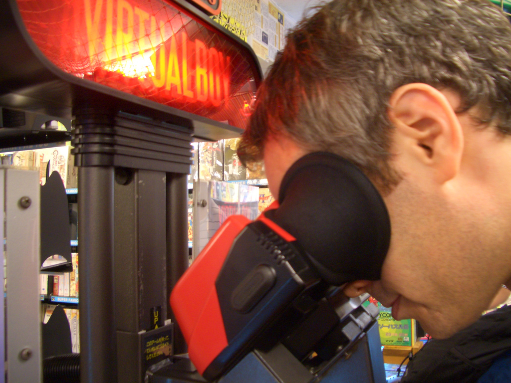 Virtual Boy Uploaded by JohnnyMrNinja